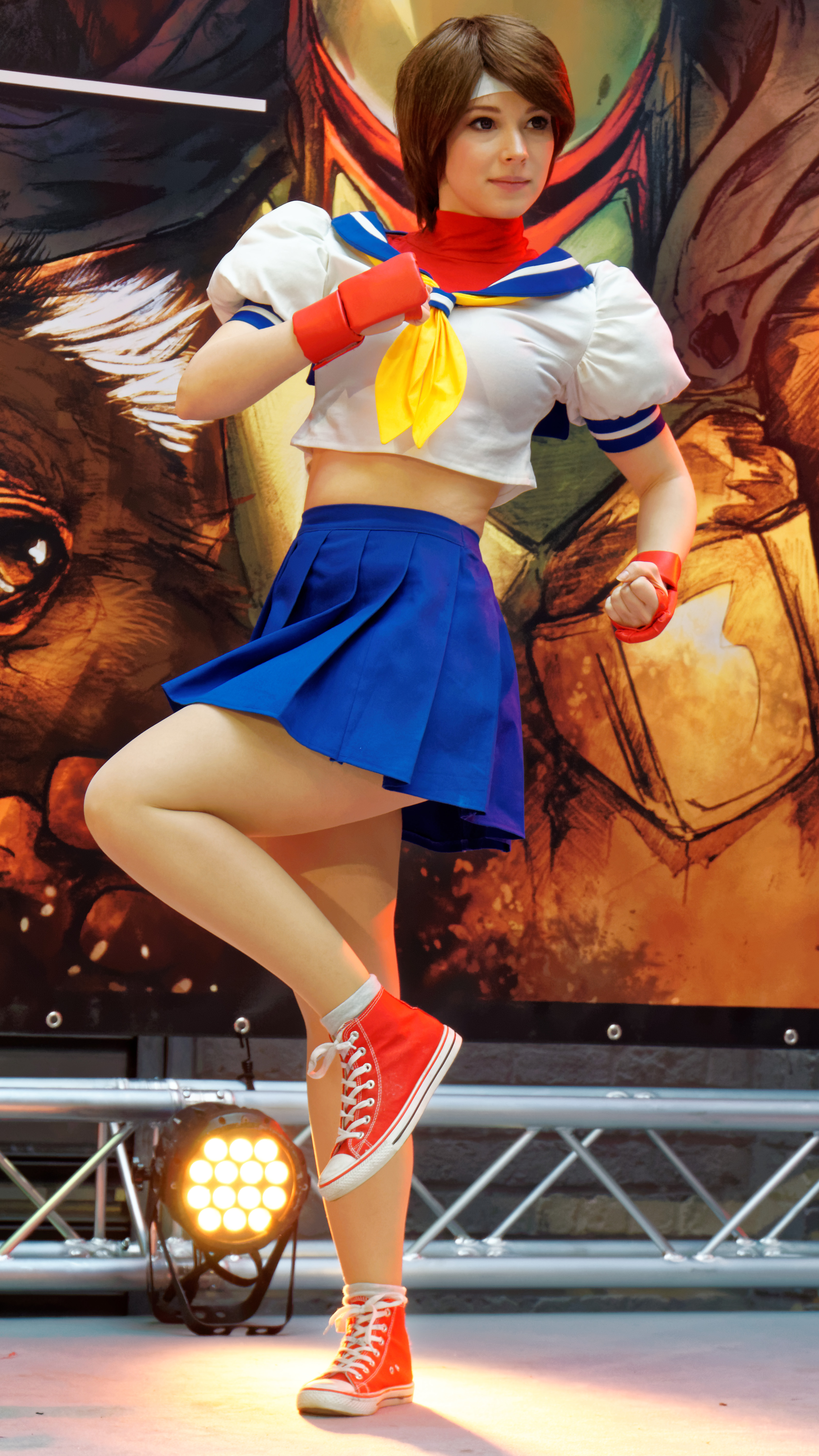 Anna Rédei (aka Enji Night) cosplaying as Sakura (from Street Fighter) at Comic Con Brussels 2016 (CCBX 2016).